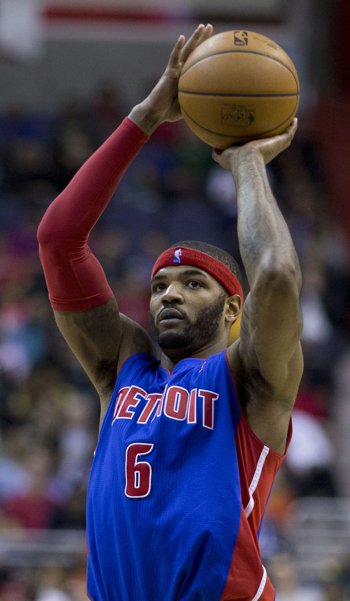 Pistons at Wizards 1/18/14